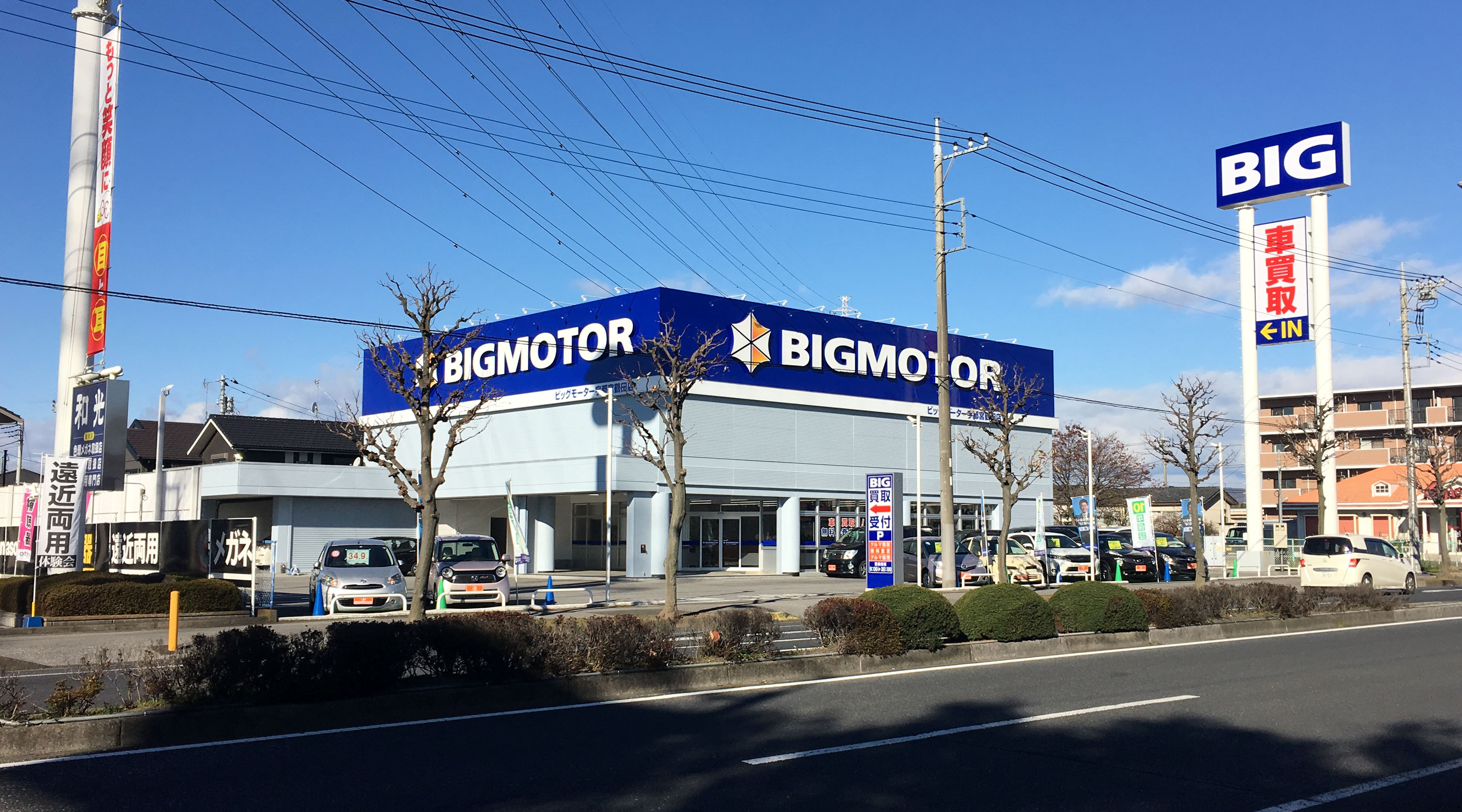 BIGMOTOR (Japanese used car dealer) Utsunomiya Tsuruta branch (Utsunomiya, Japan)